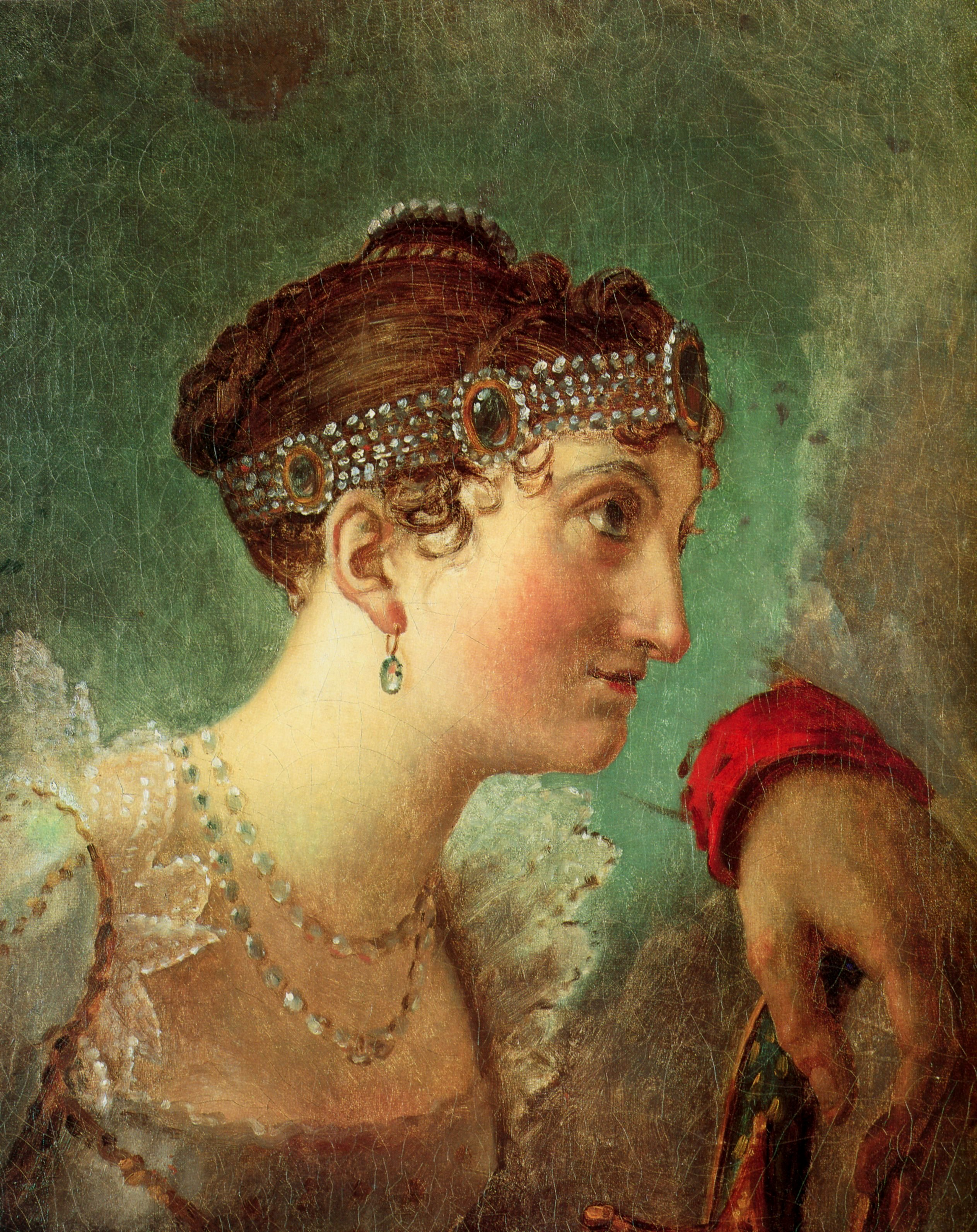 Portrait of Adélaïde de La Rochefoucauld, by Jacques-Louis David.